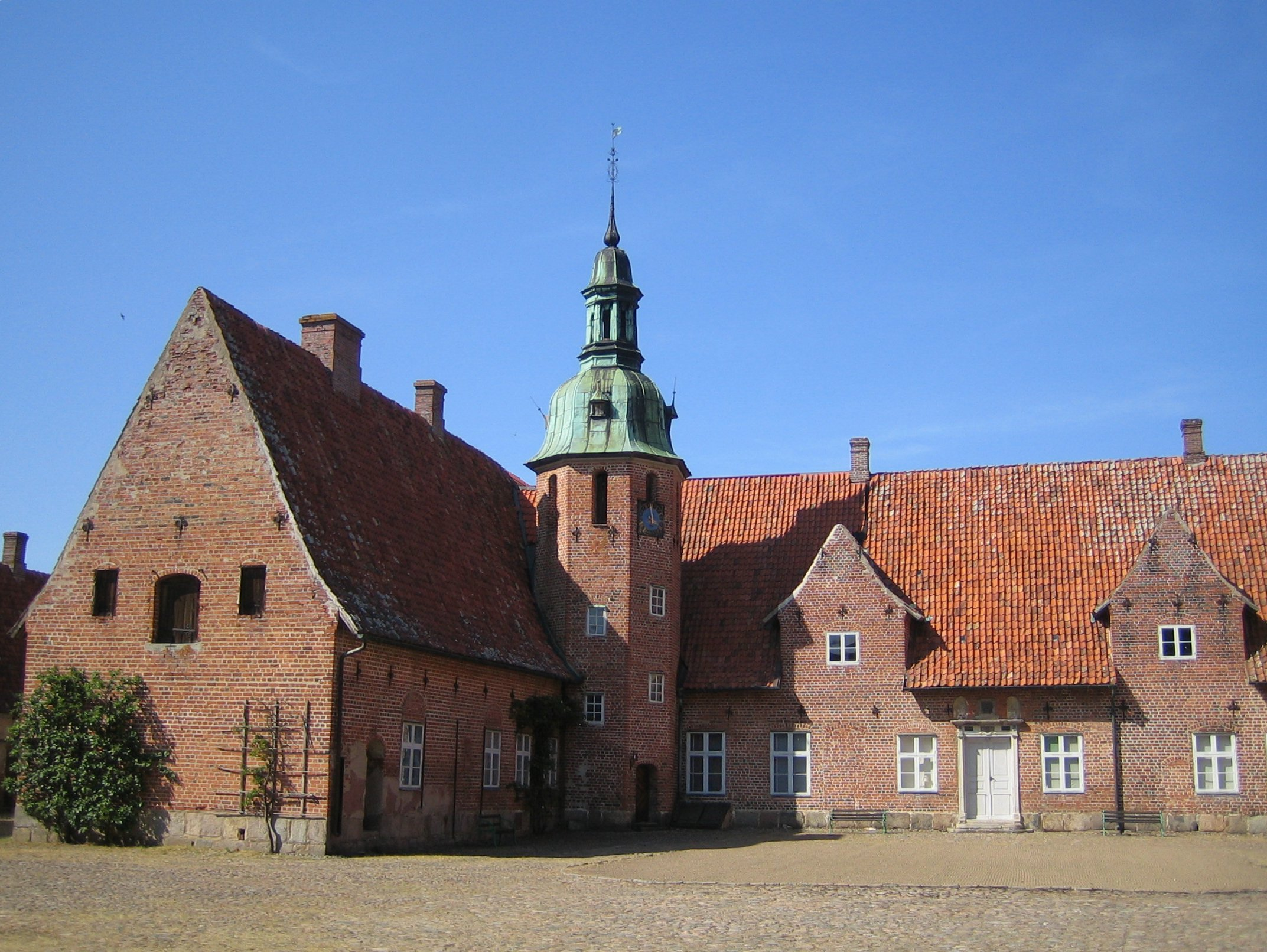 Picture of Rosendal castle near Helsingborg in Scania, Sweden.